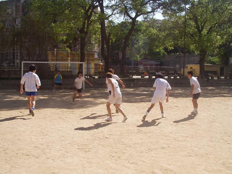 some locals were playing football in Campo dos operários da AGOM before the Grand Lisboa is bulit on the site on April 14, 2004.